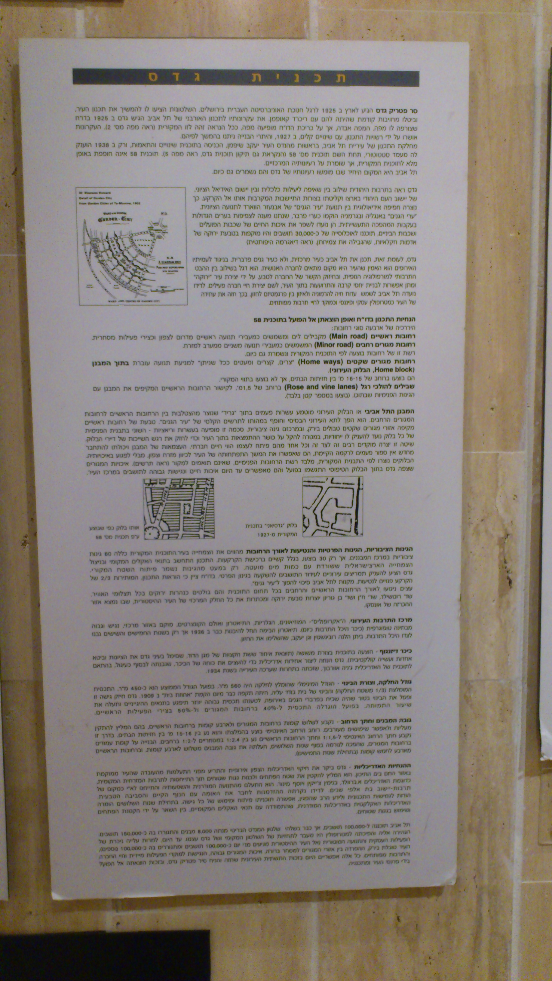 Category:White City of Tel Aviv